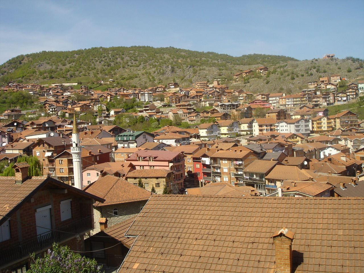 village of Labuništa, neat Struga, Macedonia